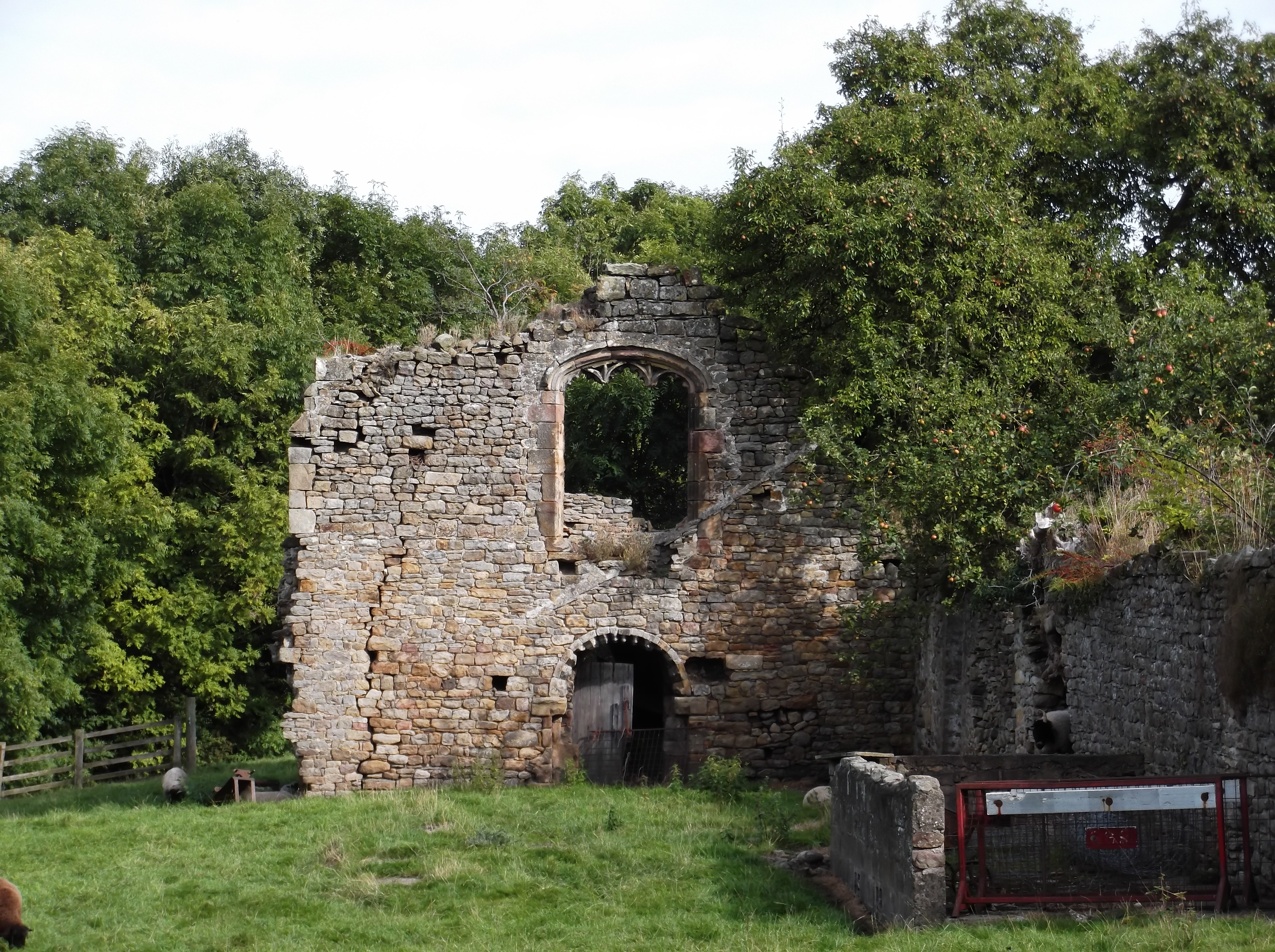 Photograph of the remains of St Martin's Priory, Richmond, North Yorkshire, England